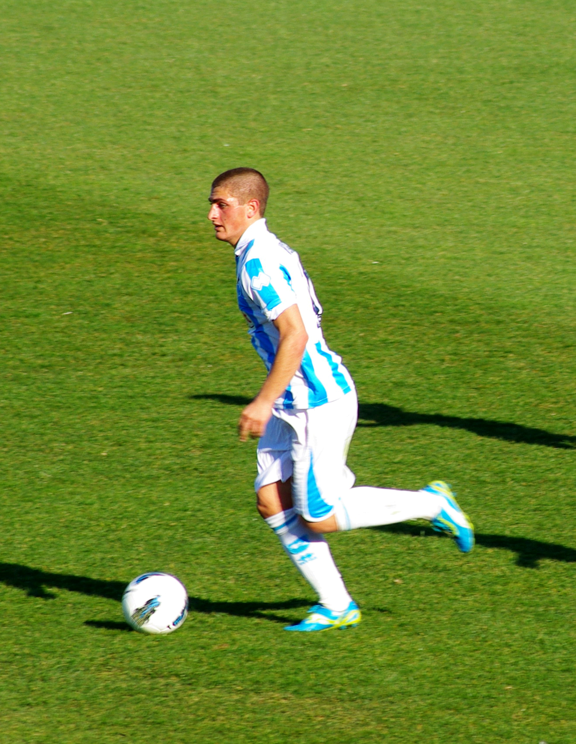 Marco Verratti playing for Pescara